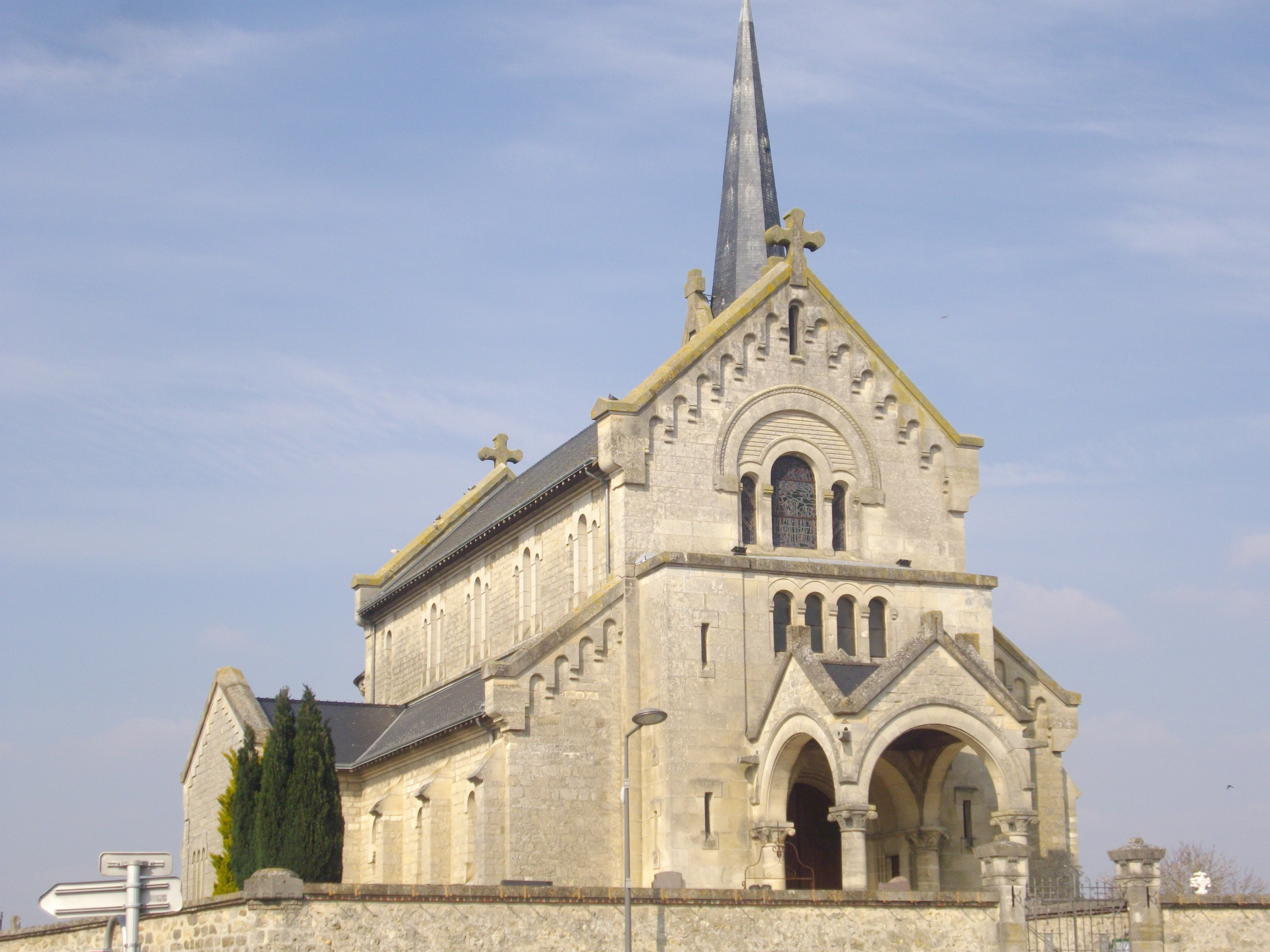 Saint Remigius church of Brimont (Marne, France)